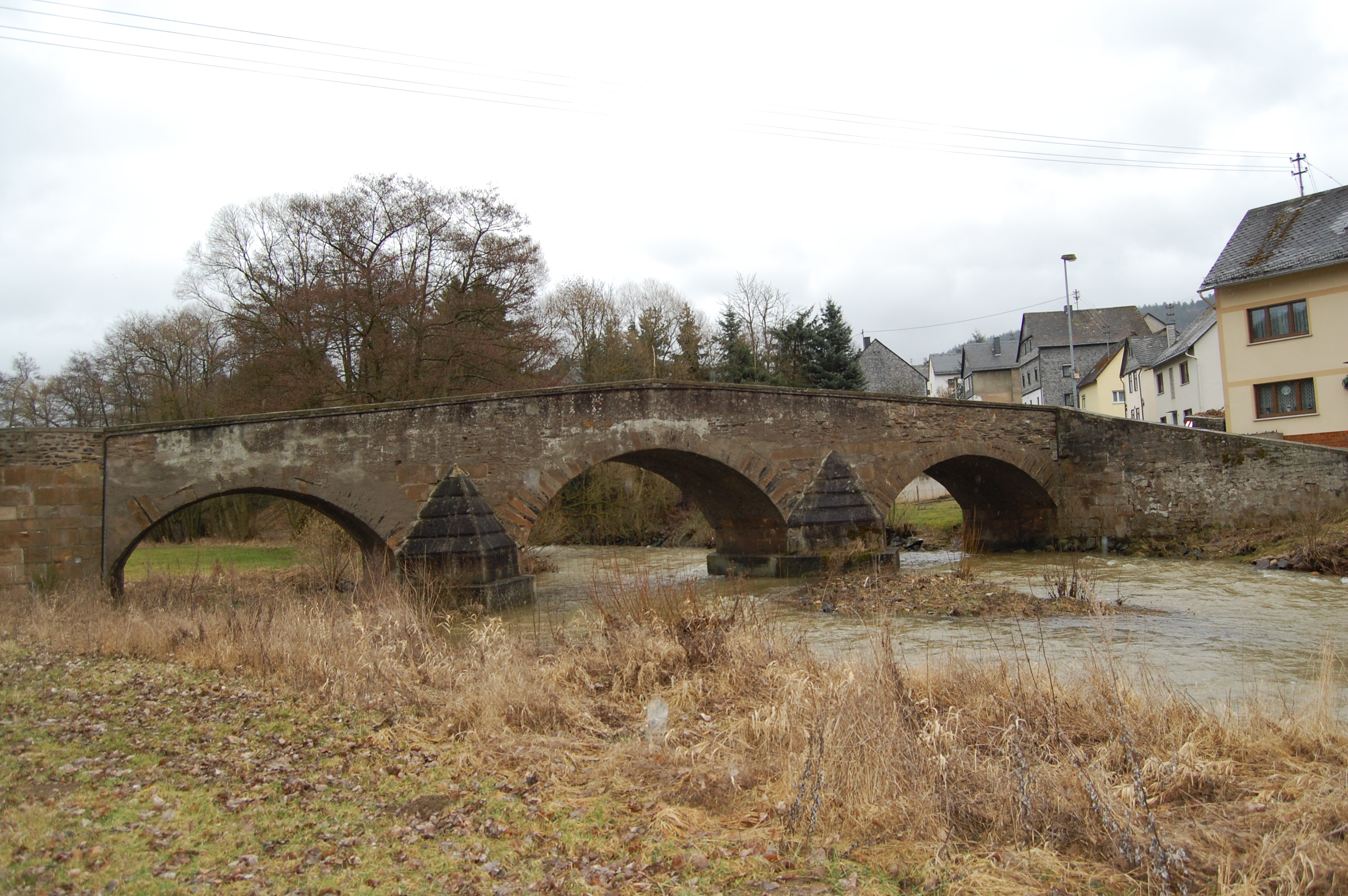 Historical brige over the Kellenbach River in Gehlweiler, Hunsrück landscape, Germany